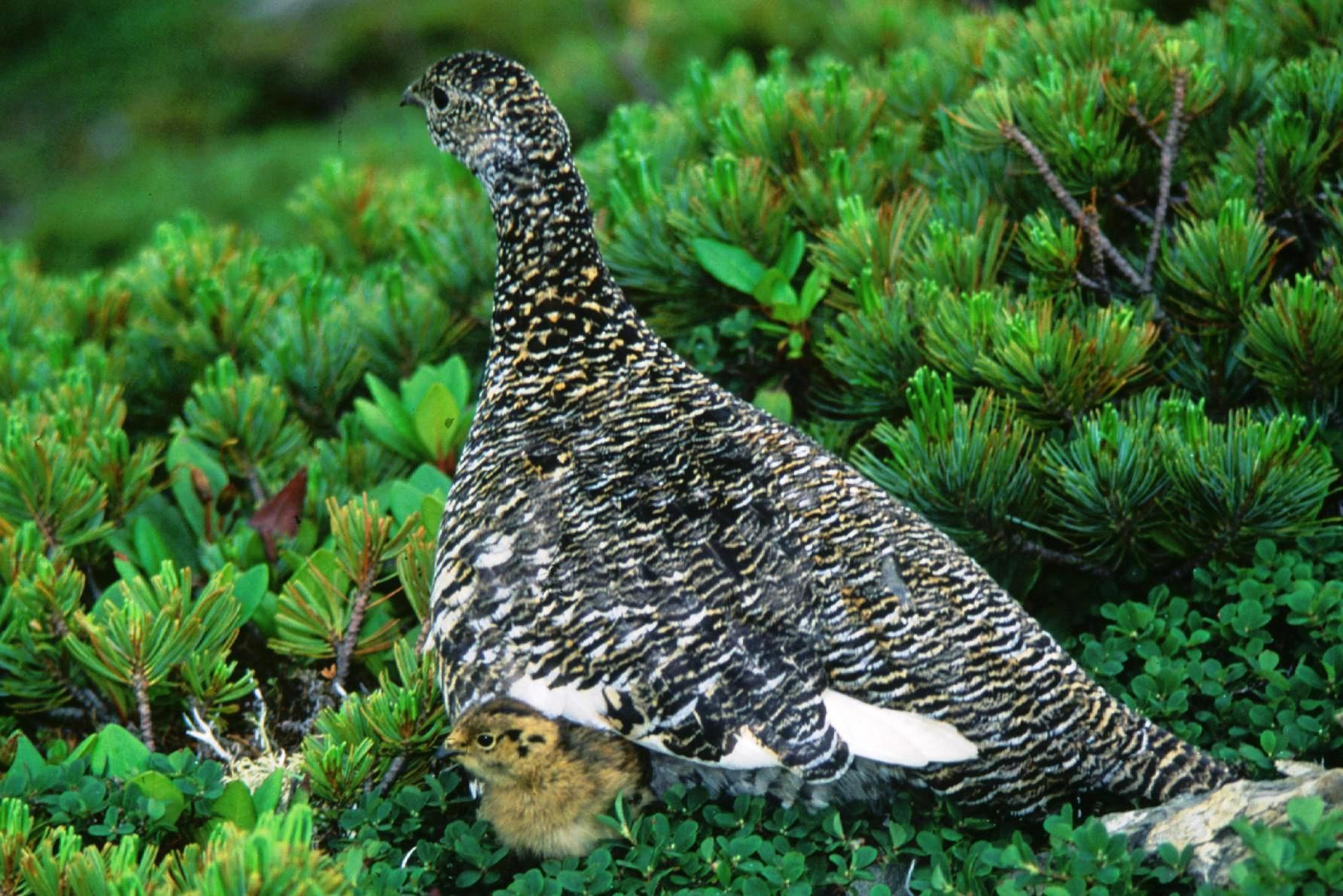 Rock Ptarmigan (Lagopus muta japonica, Lagopus mutus japonicus), in Mount Akaishi Japan.